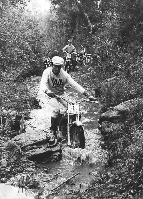 Pere Pi Spanish Trial Championship 1969. This is a Trial held in Navarcles (Catalonia) in 1969 October